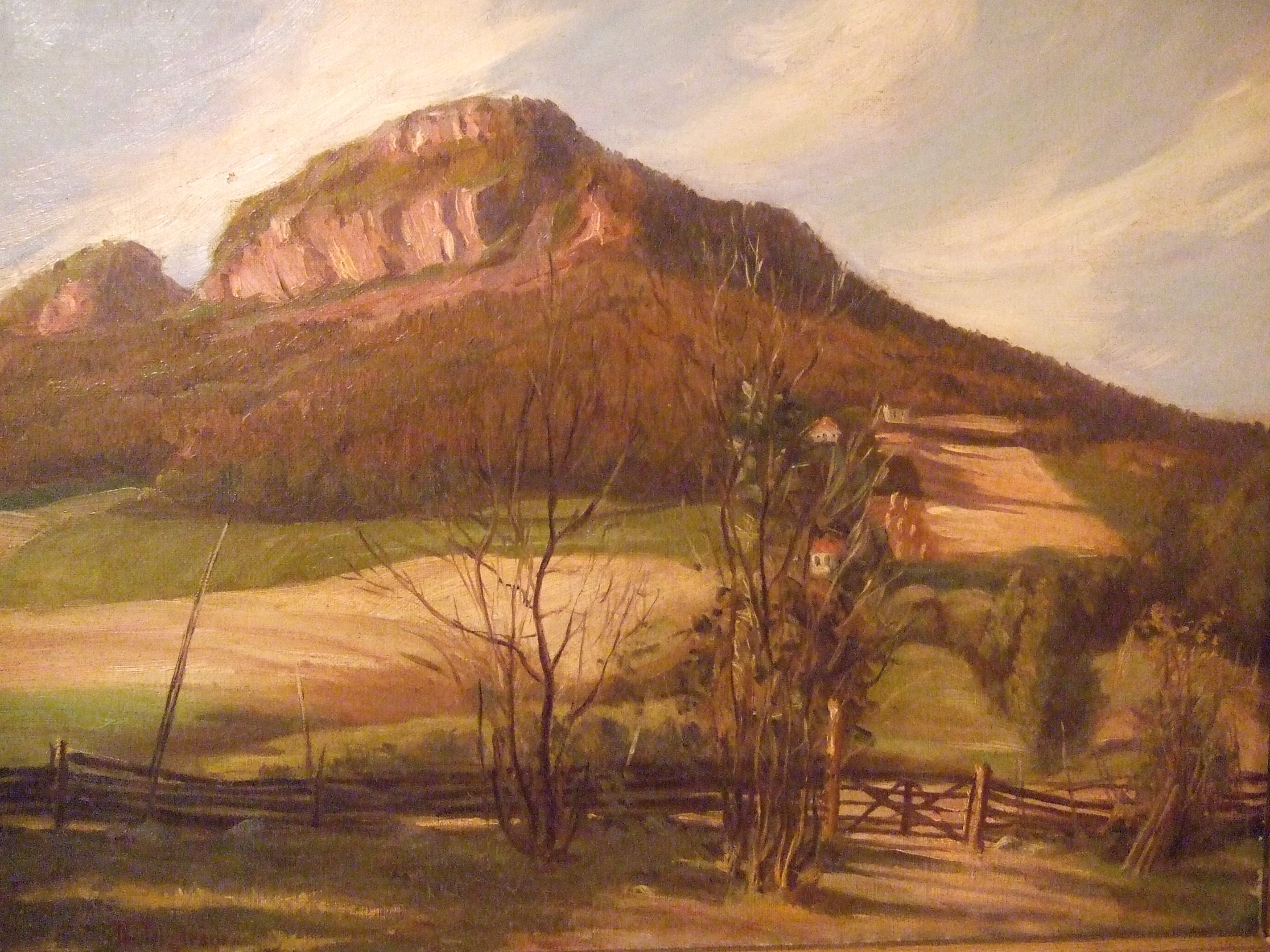 Old painting